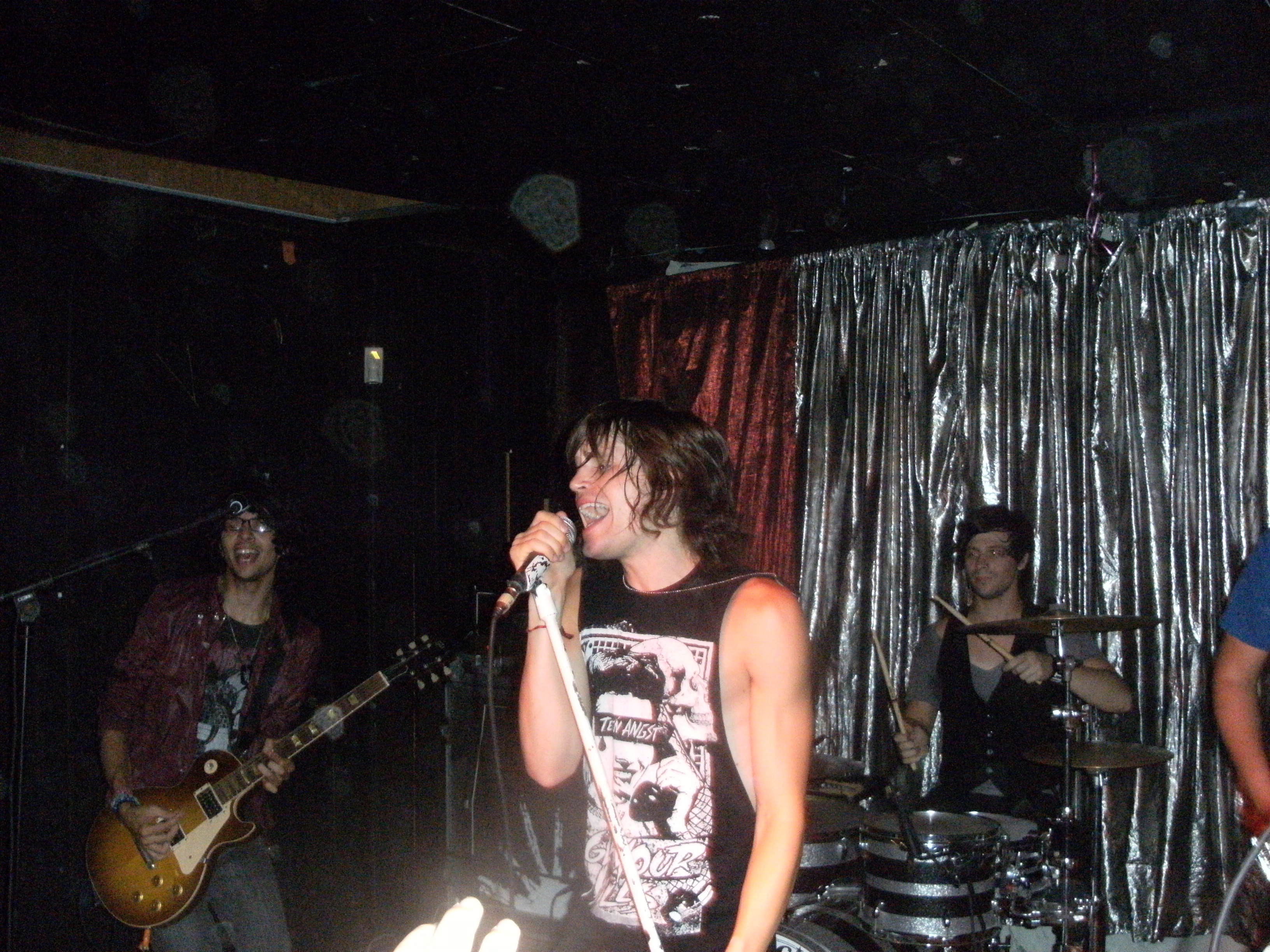 The Bigger Lights performing live at The Barbary in Philadelphia, PA on August 22nd 2010 at their first headlining tour, The Caffeine And Skinny Jeans Tour